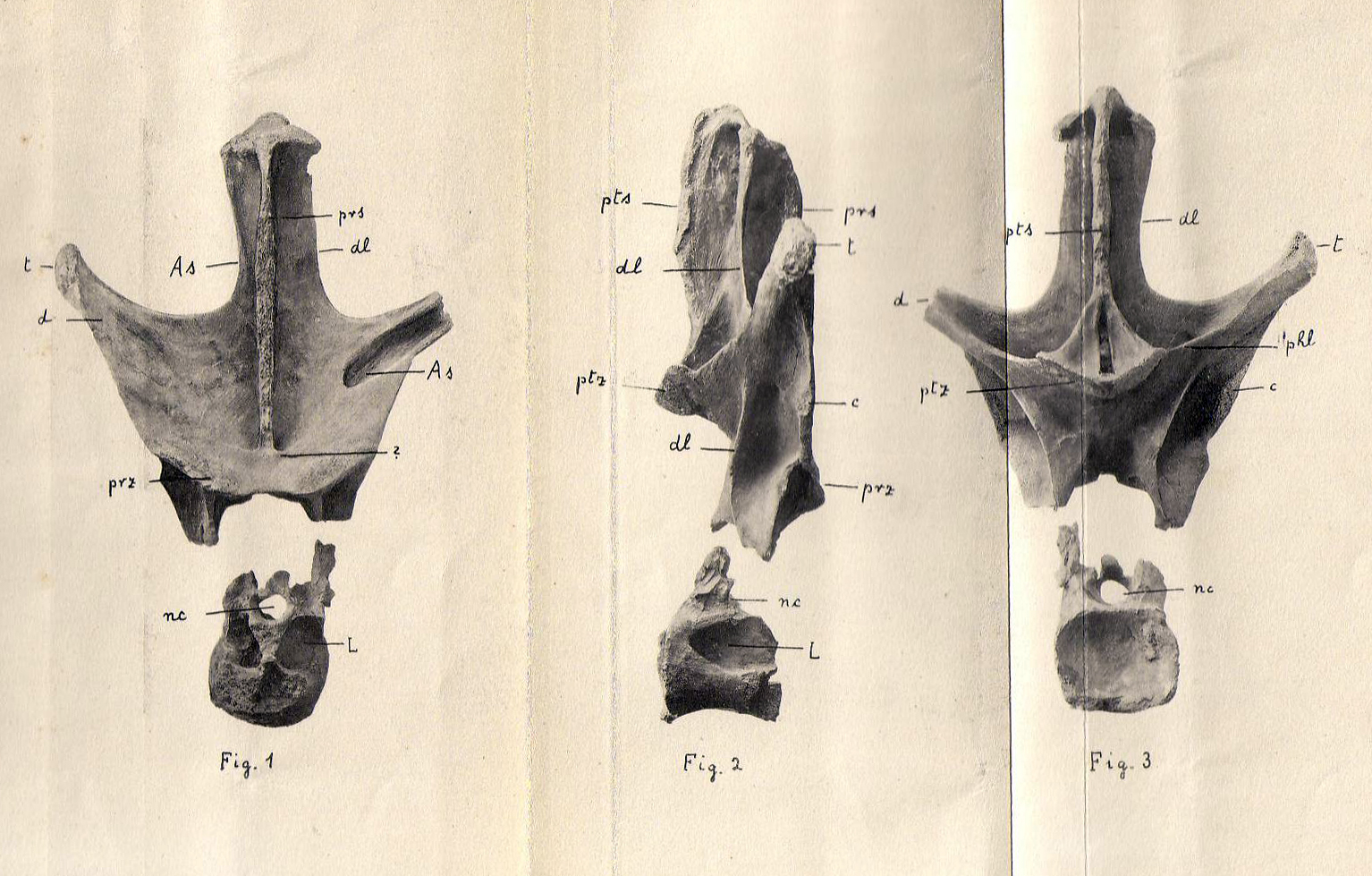 Holotype dorsal vertebra of Nopcsasopondylus.